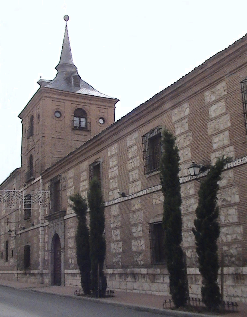 "Colegio Menor San Ciriaco y Santa Paula" (or "Málaga") at the University of Alcalá. Founded in 1610 in Alcalá de Henares (Community of Madrid - Spain).